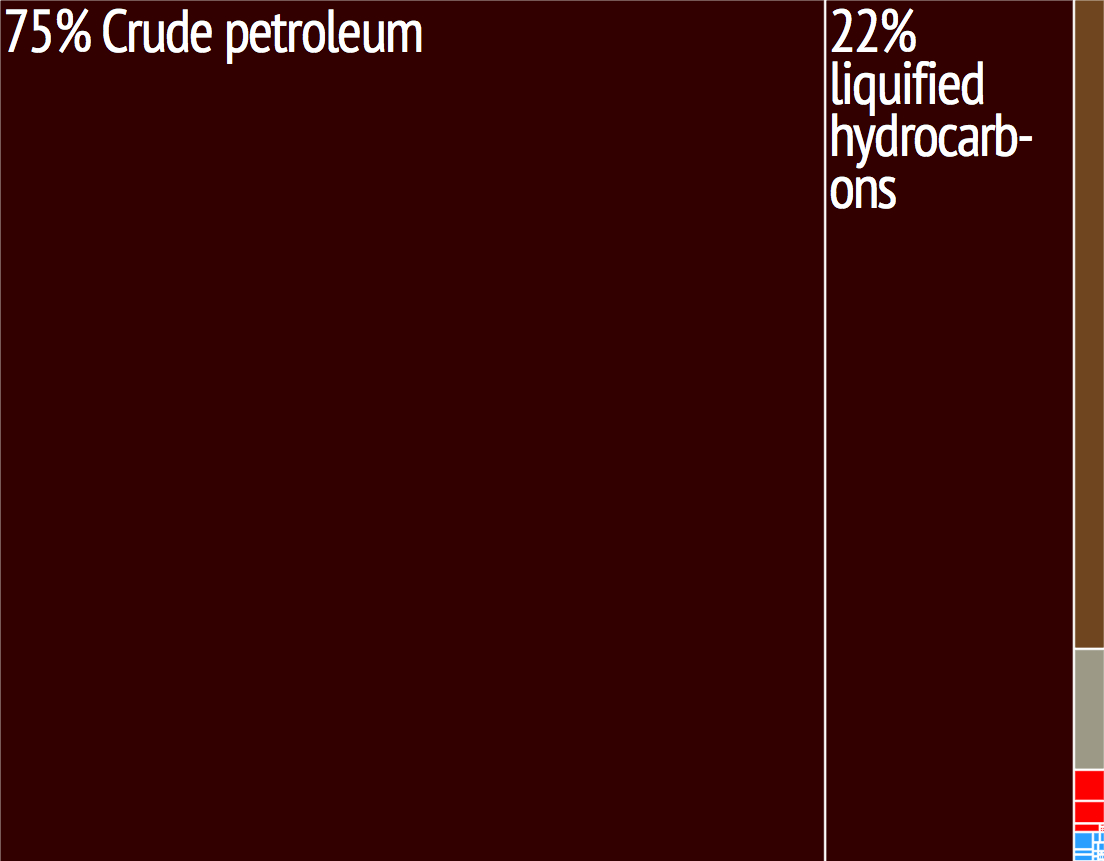 Export Trading Treemap. From MIT/Harvard Atlas of Economic Complexity